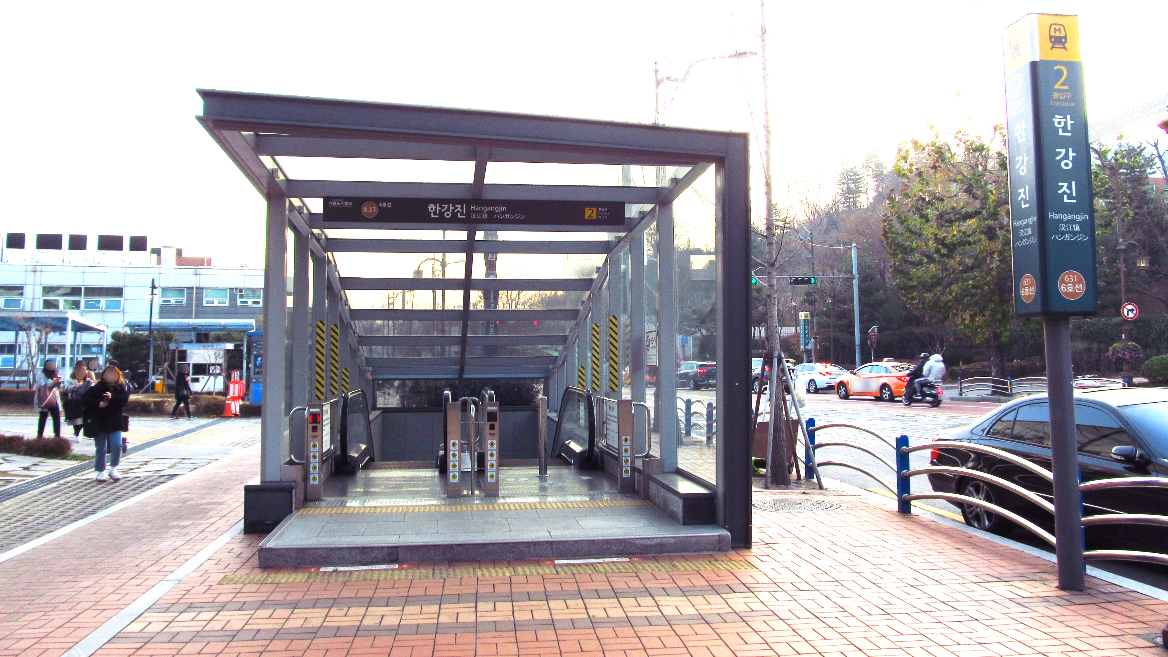 The no.2 entrance to Hangangjin Station on the Seoul Metro Line 6 in Yongsan-gu, Seoul, Republic of Korea(South Korea)